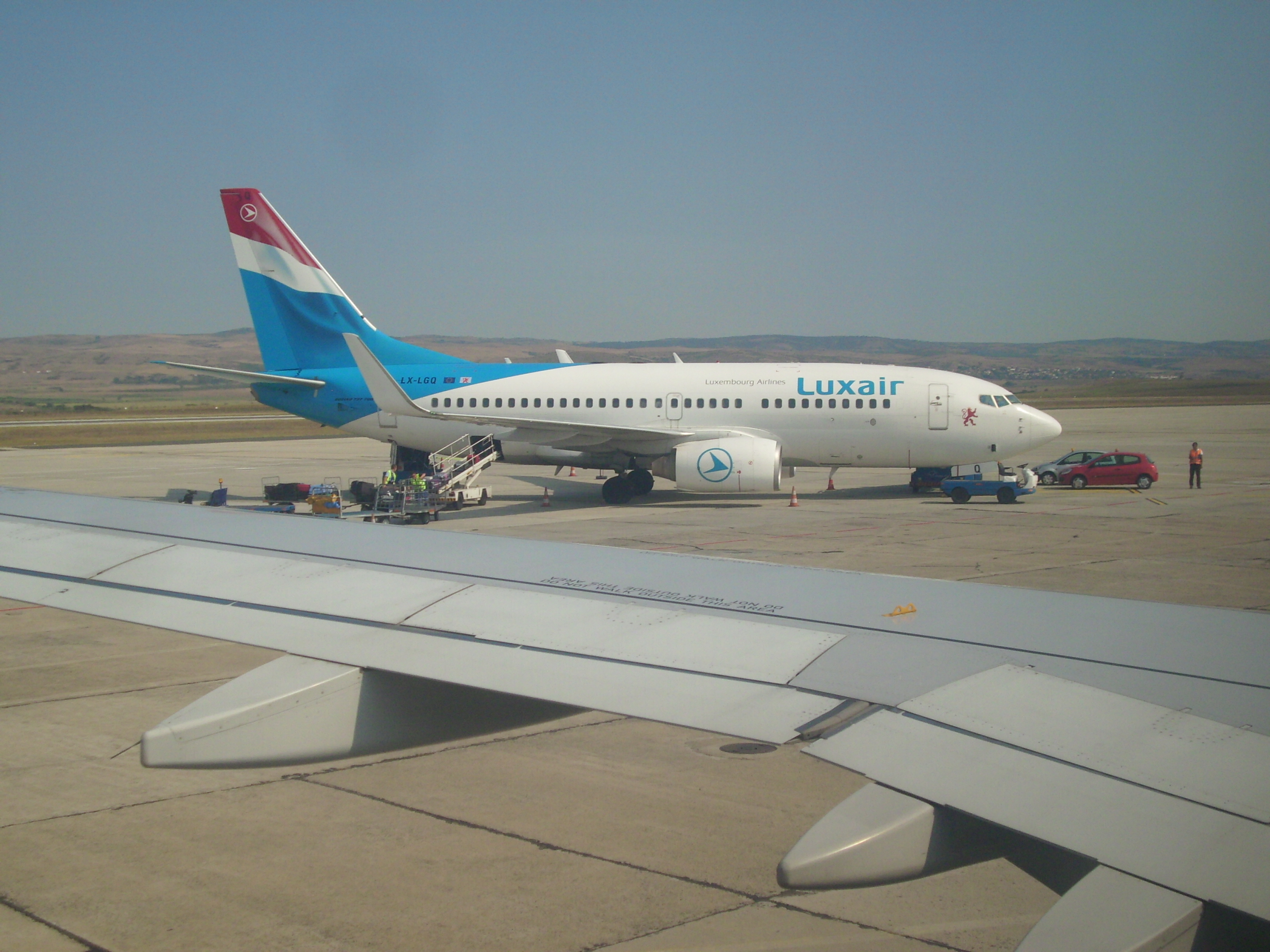 Luxair Boeing 737 at Burgas Airport (Bulgaria)